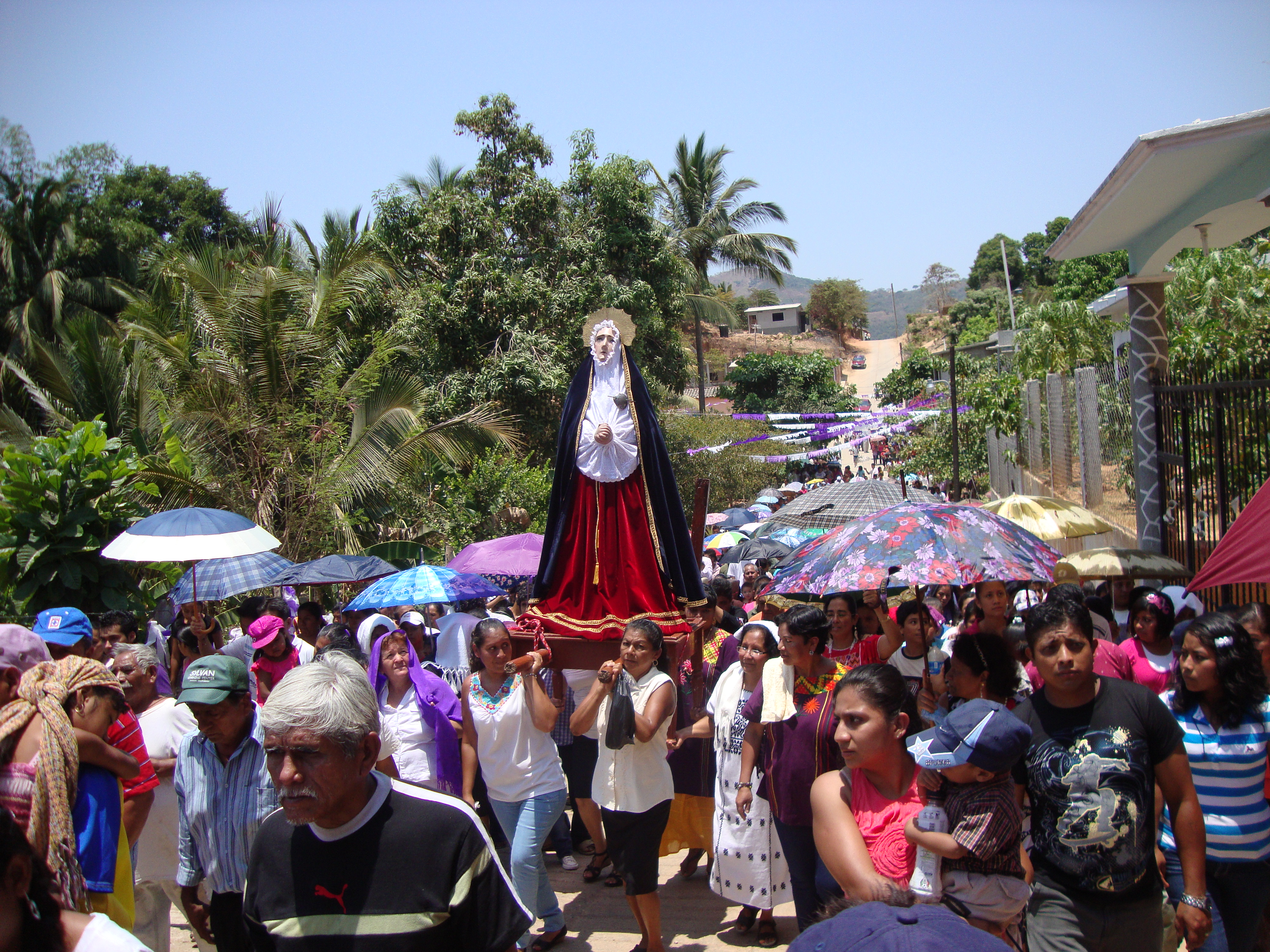 Holy week